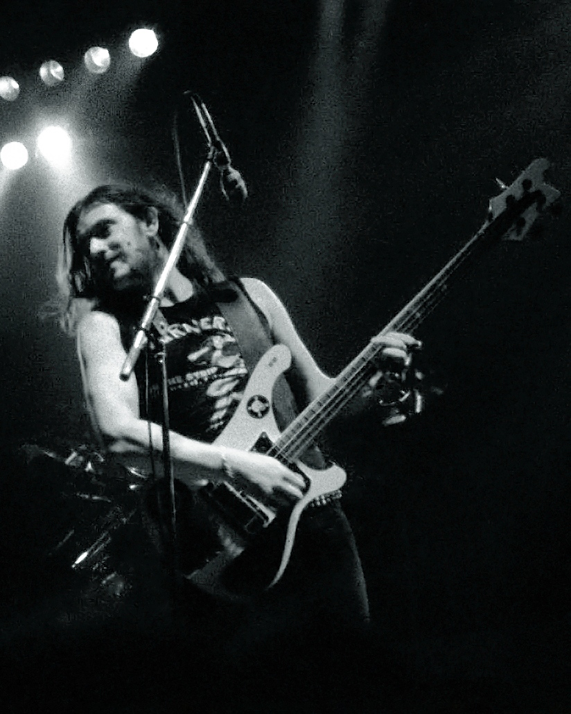 Ian "Lemmy" Kilminster playing live with Motörhead in St. Albans, Hertfordshire